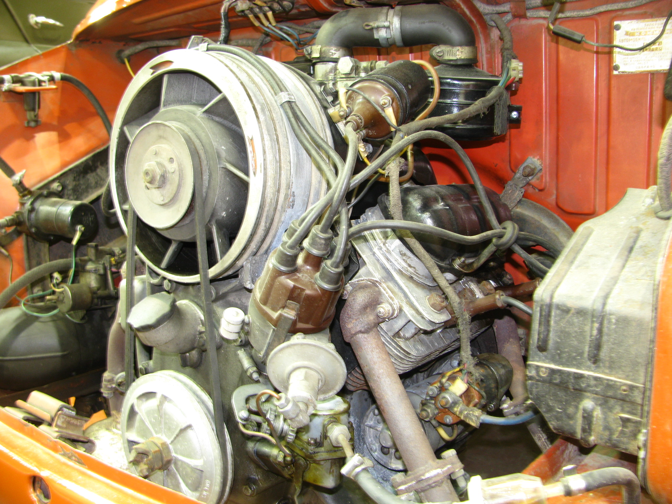 ZAZ-965AE engine: aircooled V4.